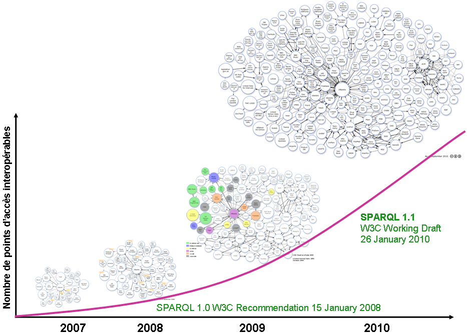 Graph about the quatity of data in the Linked Open Data